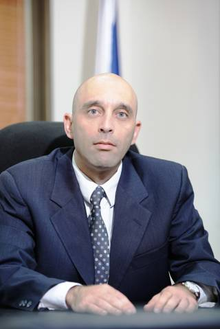 Shaul Tzemach